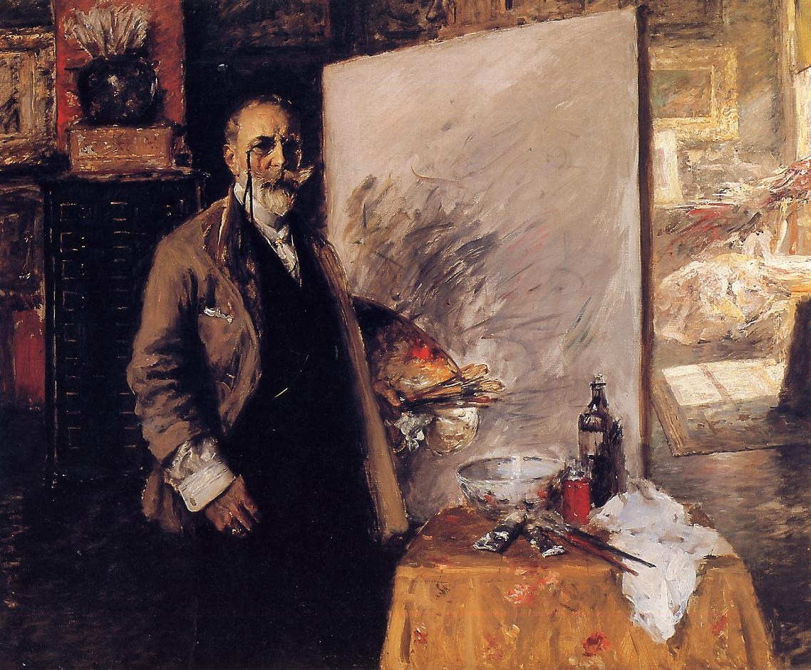 "Self Portrait" by the American artist and proponent of impressionism William Merritt Chase. Courtesy of the Art Association of Richmond.